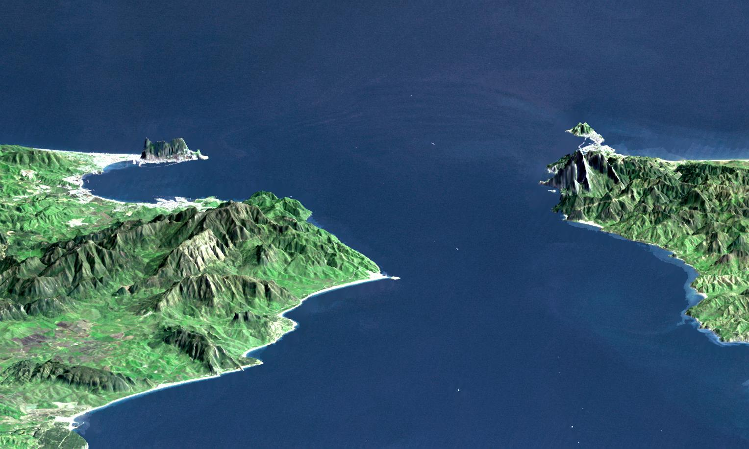 "This perspective view shows the Strait of Gibraltar, which is the entrance to the Mediterranean Sea from the Atlantic Ocean, with a 3-times vertical exaggeration to enhance topographic expression. Europe (Spain) is on the left. Africa (Morocco) is on the right. The Rock of Gibraltar, administered by Great Britain, is the peninsula in the back left." (quotation taken from the more detailed NASA description page) View Size: 46 kilometers (28 miles) wide, 106 kilometers (66 miles) distance Location: 36 degrees North latitude, 5.5 degrees West longitude Orientation: Looking East, 15 degrees down from horizontal, 3X vertical exaggeration Image Data: Landsat Bands 1, 2+4, 3 as blue, green, red respectively Original Data Resolution: 30 meters (99 feet)